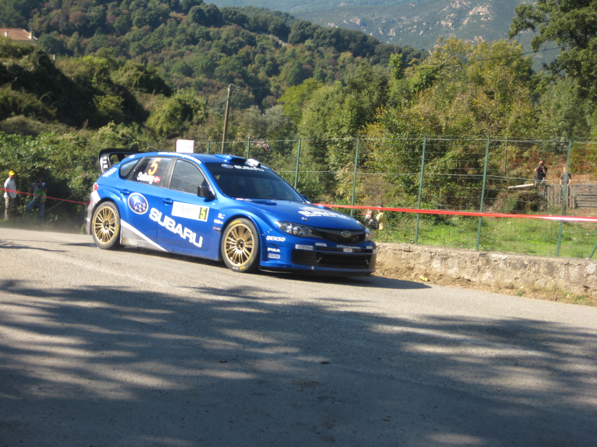 2008 Rallye de France, Day 2-SS10, Petter Solberg - Subaru Impreza WRC